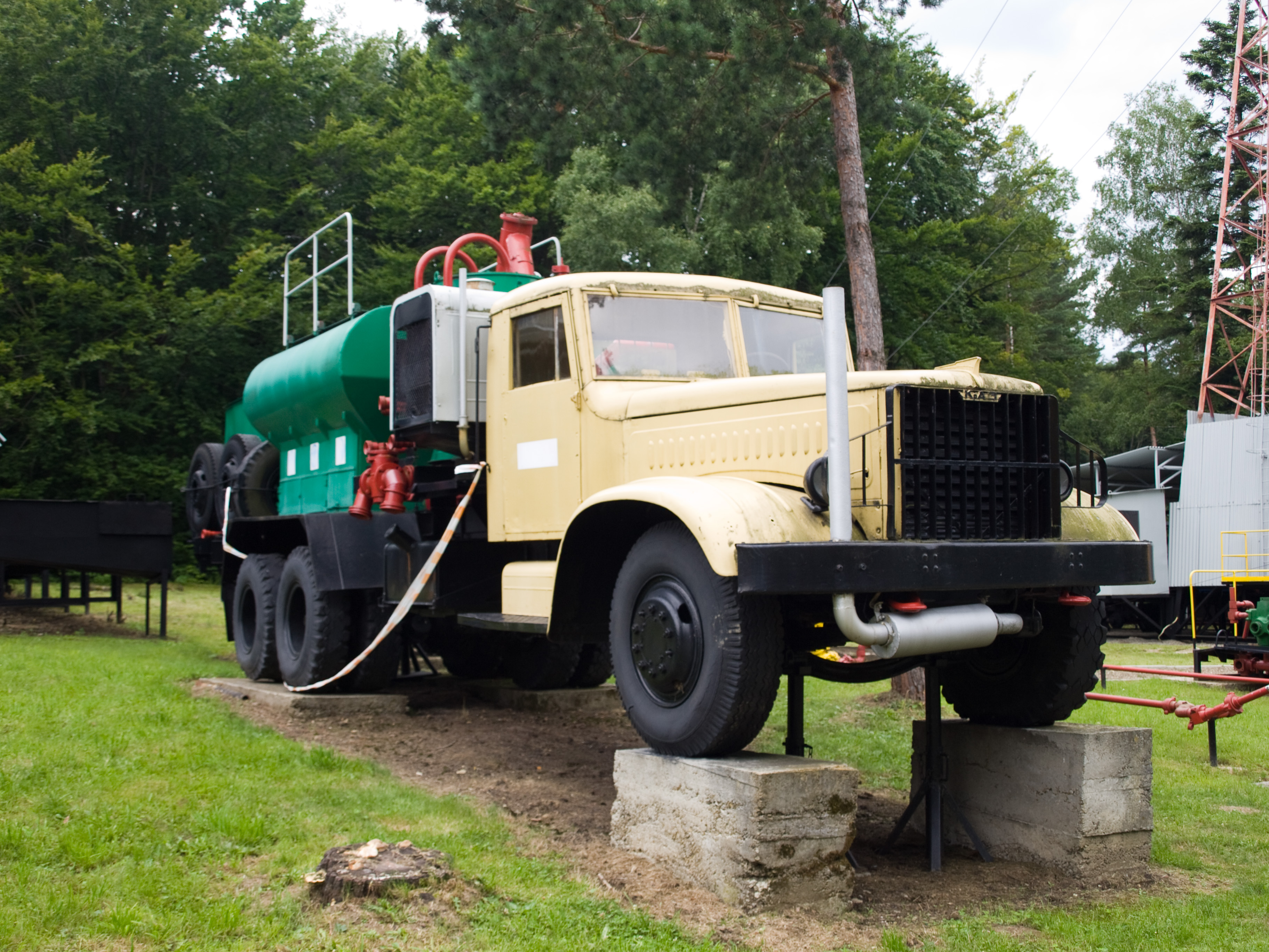 Technical museum, Bóbrka, Subcarpathian Voivodeship